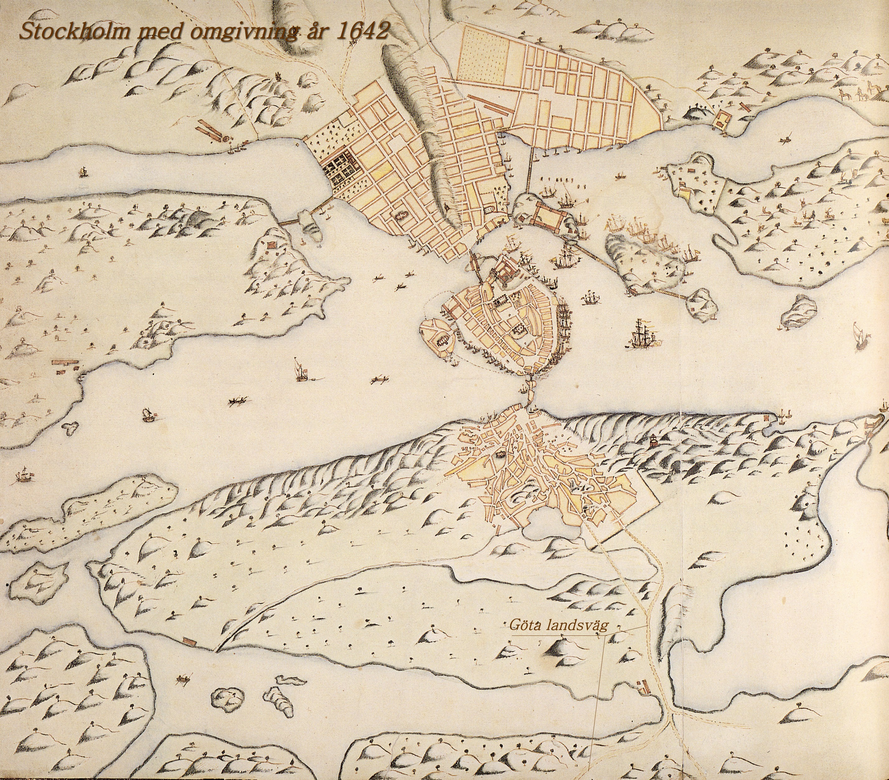 Historical map showing Stockholm, in the 17th century. The map is produced 1640 - 1642.